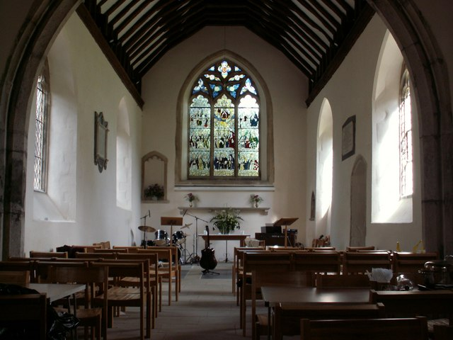 St. Andrews church at Marks Tey This picture shows the interior of the 14th century chancel. The new flat stone floor was recently laid to replace a Victorian one that had several levels.